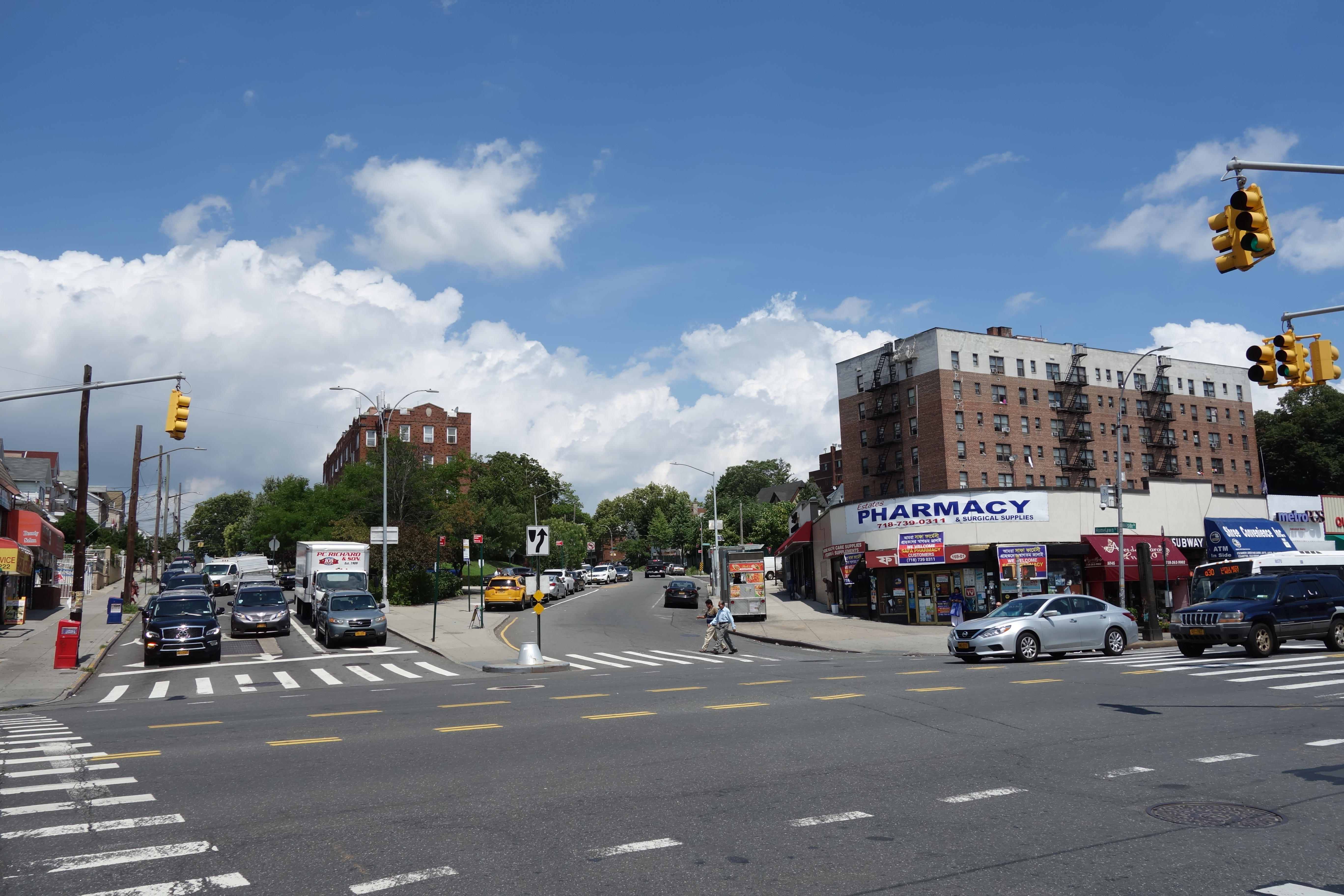 Looking north on Hillside Avenue at 169th Street (left) and Homelawn Street (right) in Jamaica, Queens. Homelawn Street, likely one of the oldest streets in Queens, branches off from 169th Street and runs northeast through Jamaica Estates into Utopia Parkway.